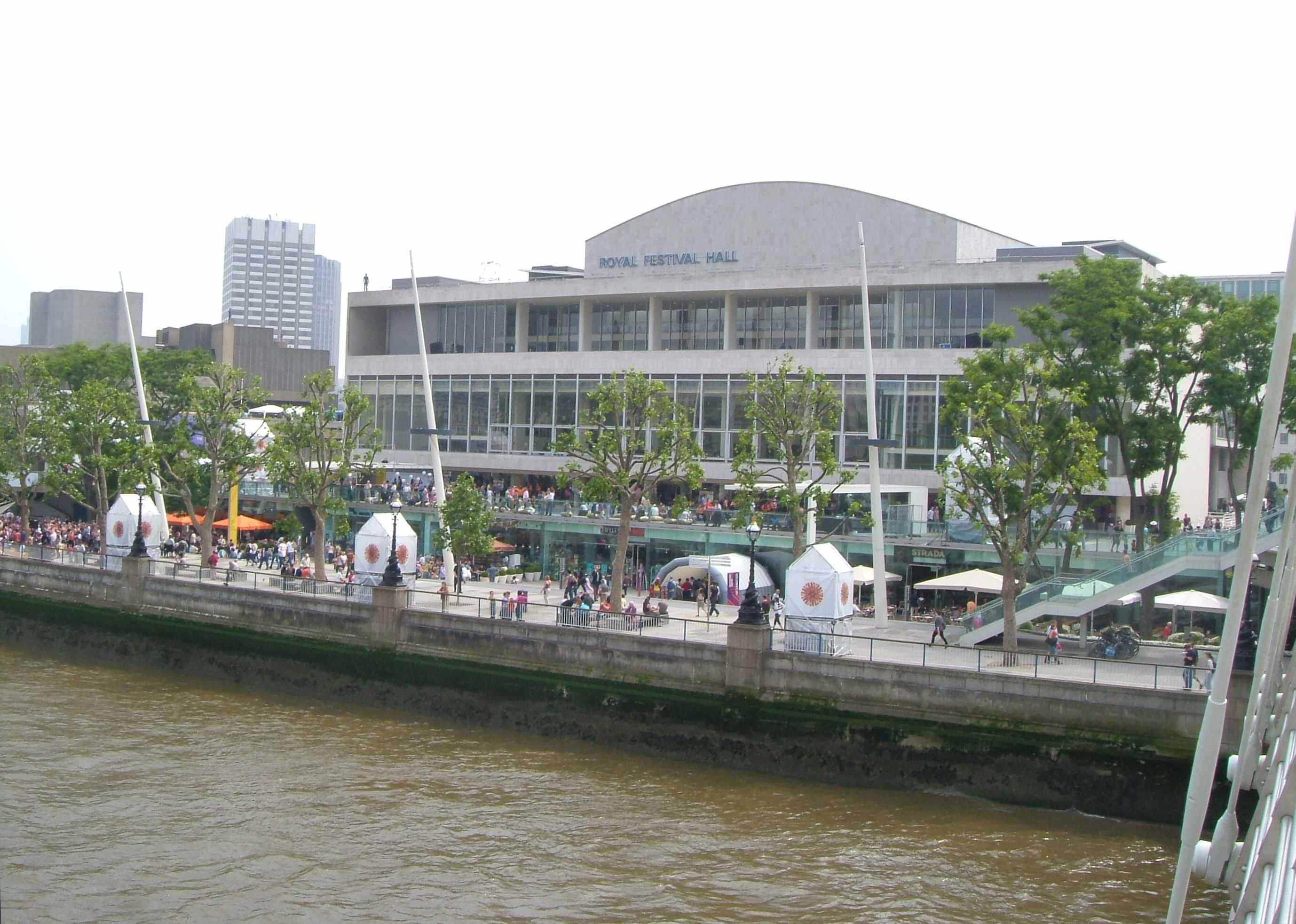 Royal Festival Hall, Thames embankment, London, United Kingdom. Taken during reopening celebrations after refurbishment.